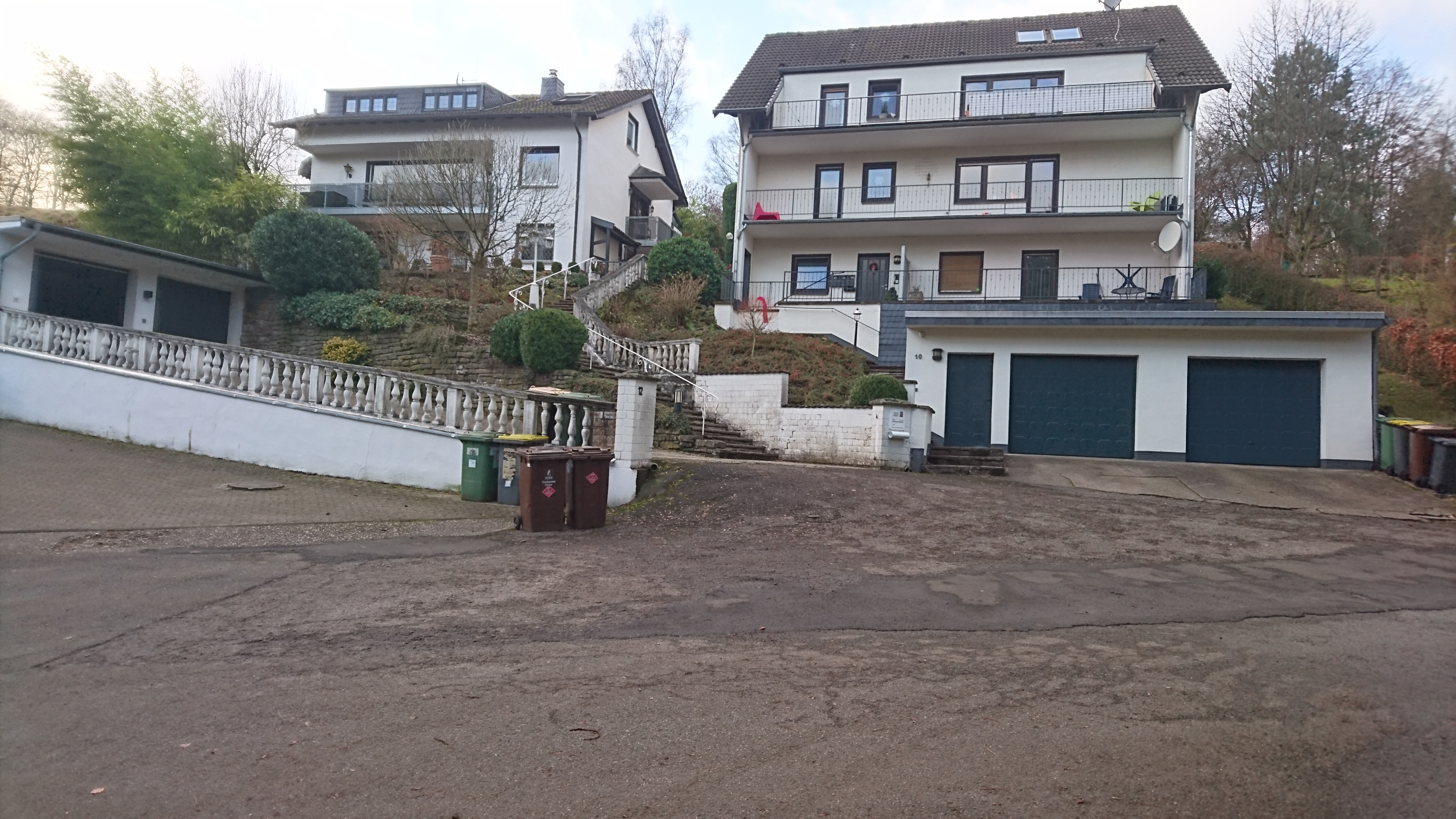 Gebäude in Burgholz (Overath, NRW)